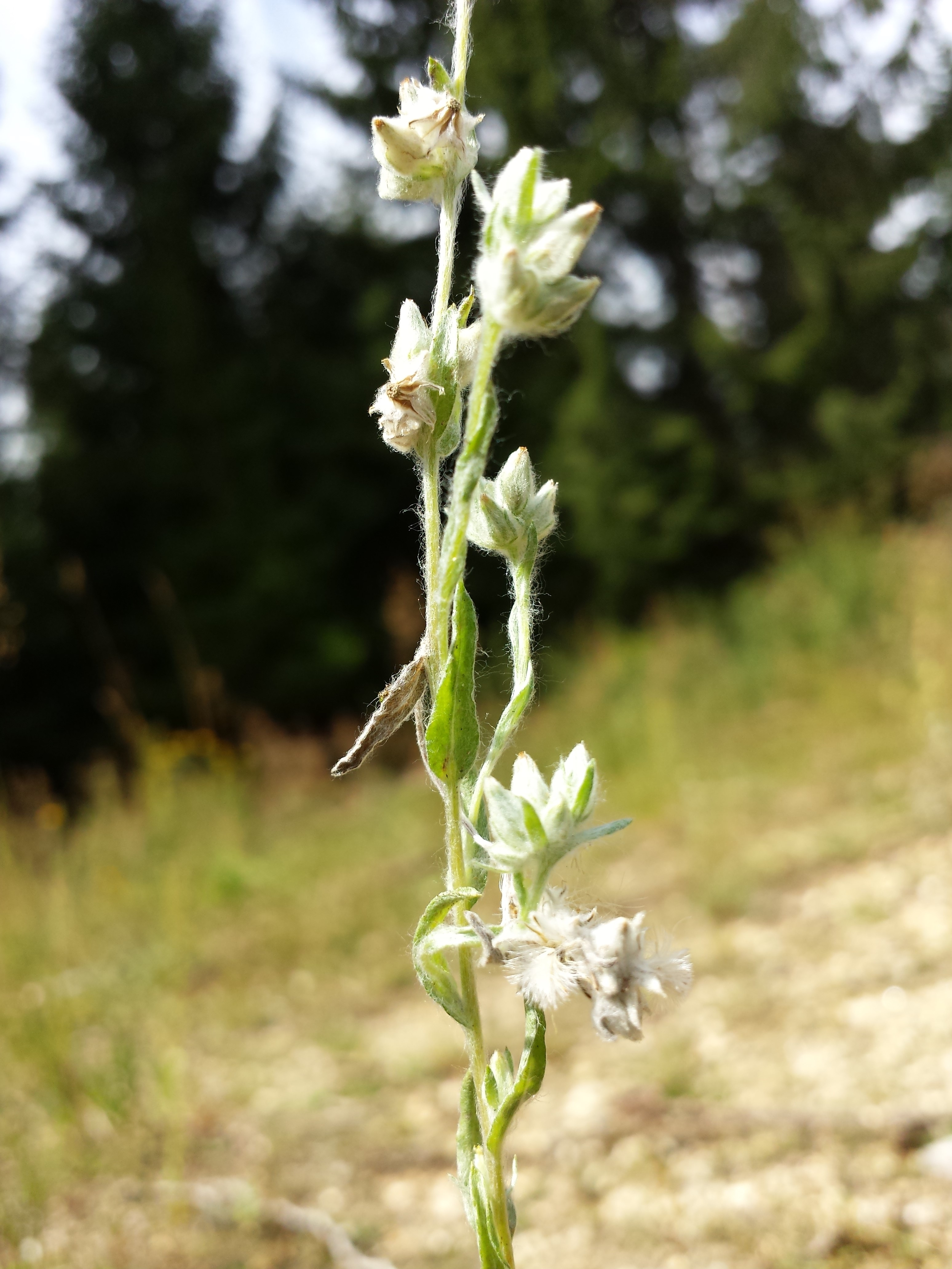 Stipe with flowers Taxon: Filago arvensis (sensu Fischer et al. EfÖLS 2008) Location: near Heumühle next to Rappottenstein, district Zwettl, Lower Austria - ca. 700 m a.s.l. Habitat: gritty place (crystalline rock)